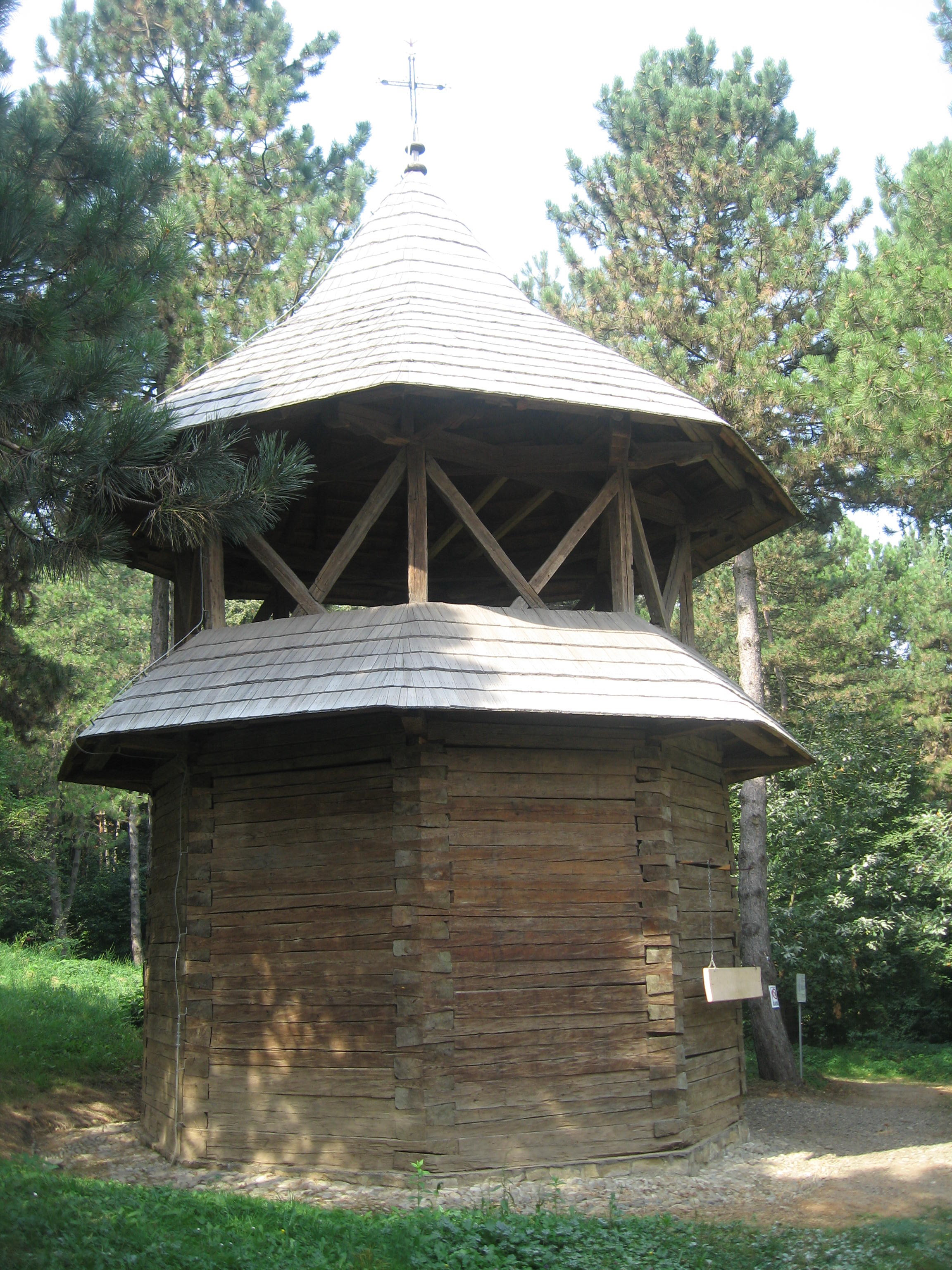 Bukovina Village Museum - Ascension Wooden Church from Vama (the bell tower).